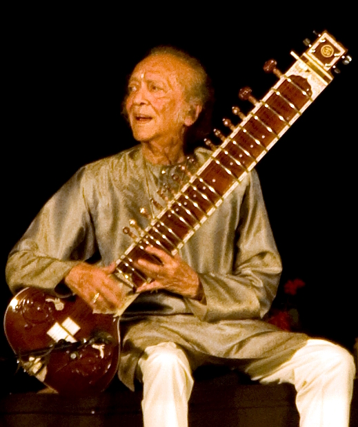 Ravi Shankar performs in Delhi with his daughter Anoushka in March 2009